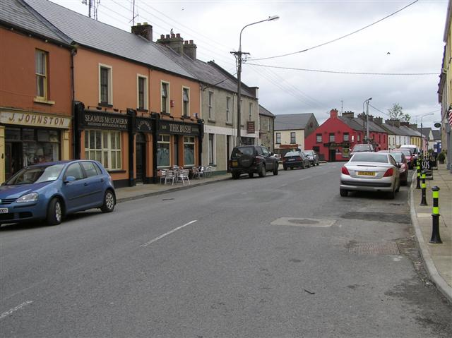 Blacklion Looking east